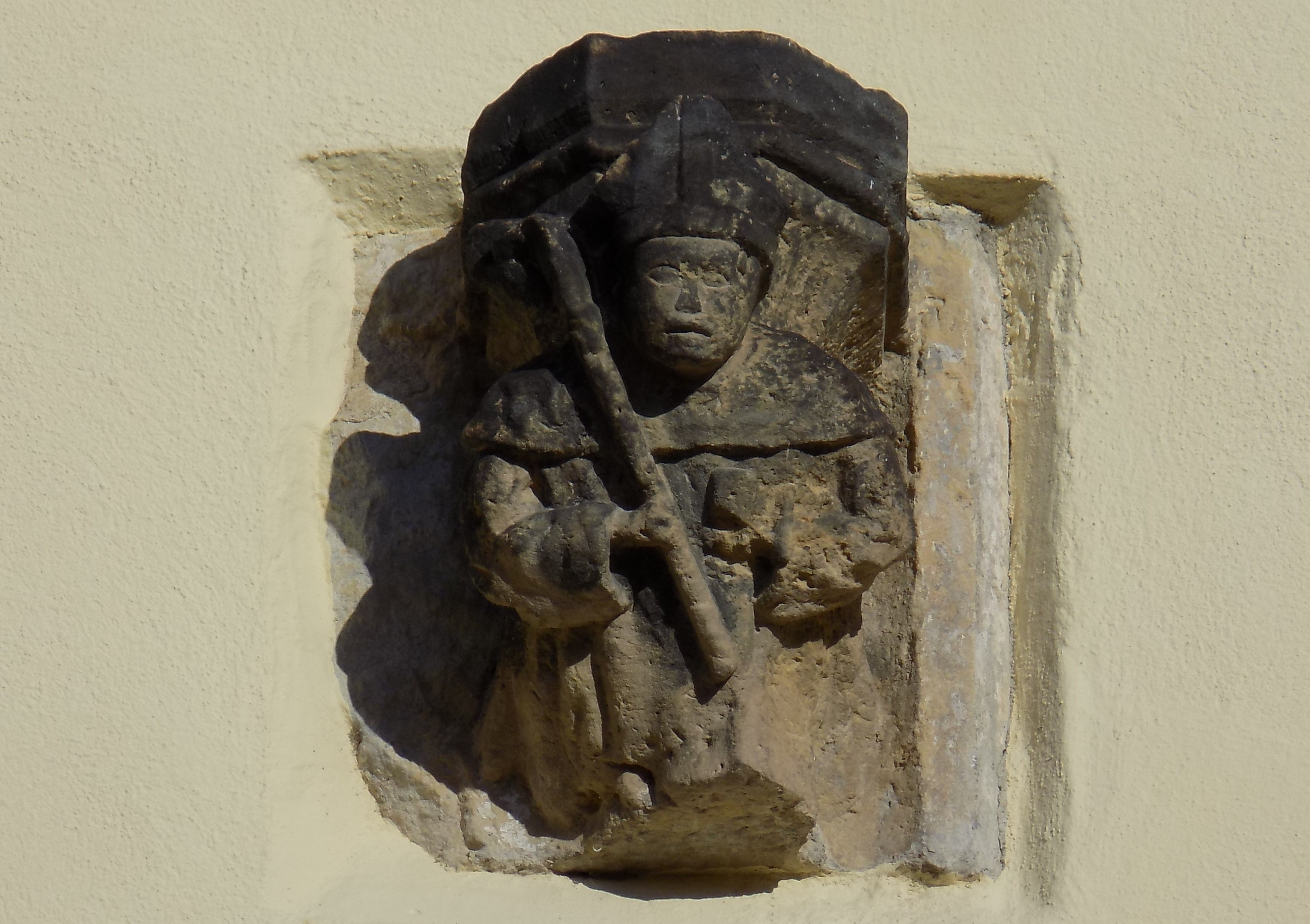 Nossen town church (Meissen district, Saxony), console originally from the monastery in Altzella